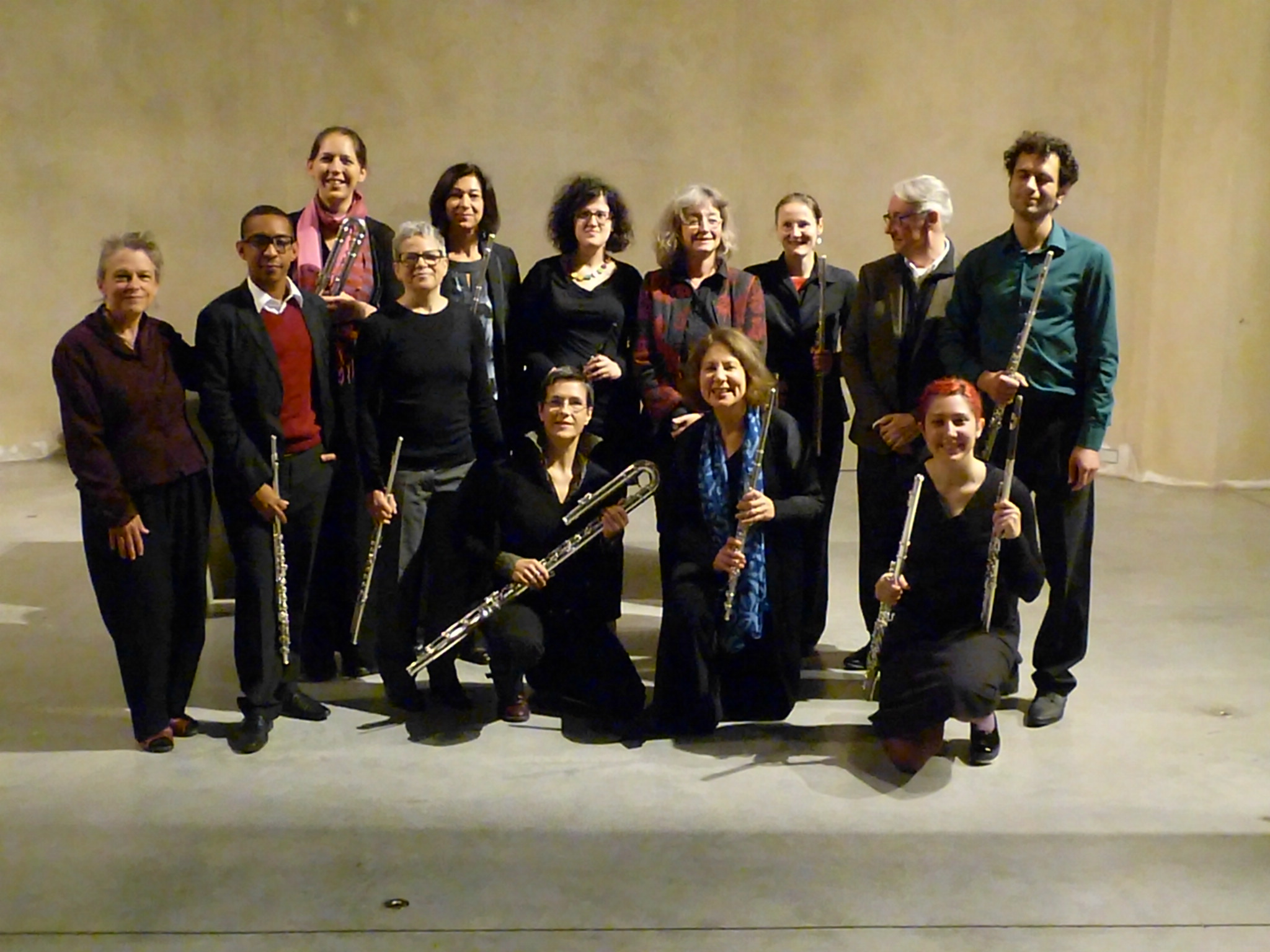 Mary Jane Leach (comp), Kevin Volans (comp), Camilla Hoitenga (fl) and The Flute Project in concert „Resonant Flutes - News from Kevin Volans & Co“ during the concert event „Cologne Music Night“ at Kunst-Station Sankt Peter, Cologne, Germany, September 19th, 2015